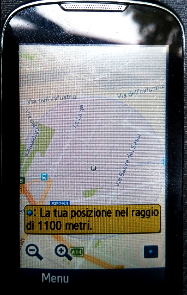 Mobile phone that by geolocalizing its position via a program via cellular networks can notice that in addition to the detected location, the location estimation error perimeter is also indicated.